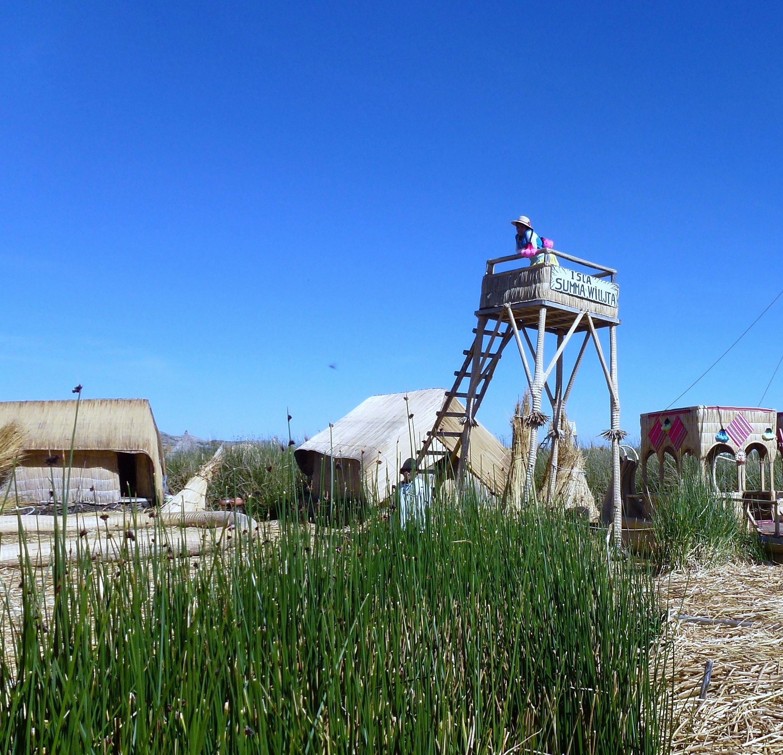 the people Aymara of Isla Summa Willjta on Lake Titicaca.- Peru